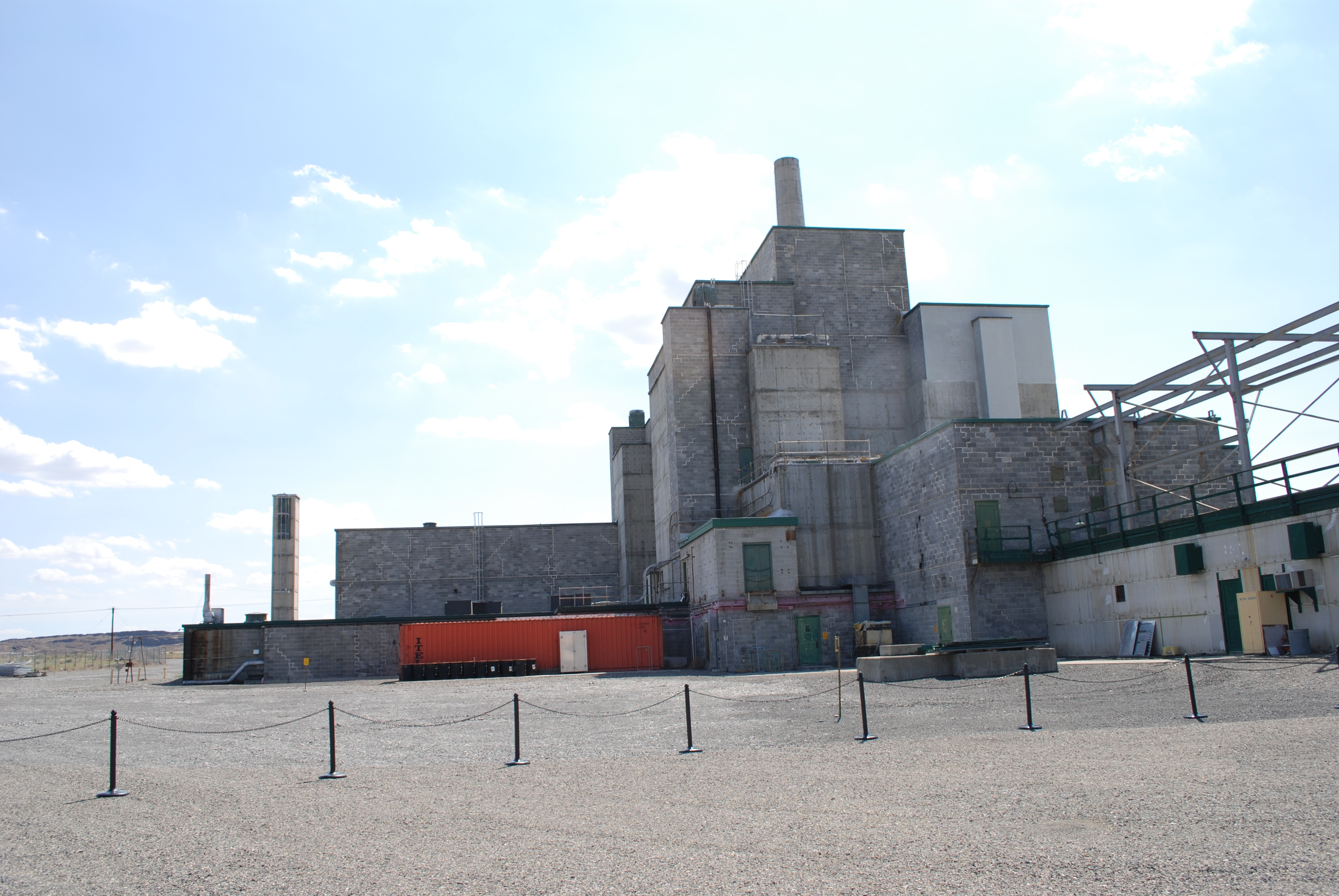 Exterior of the Hanford B Reactor